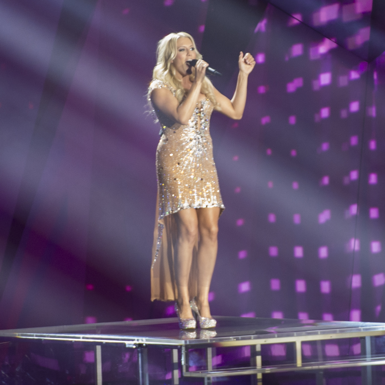 Natalie Horler from Cascada representing Germany with the song "Glorious" during the first dress rehearsal for "the Big Five" in the Eurovision Song Contest 2013 in Malmö. (Help translate this text)